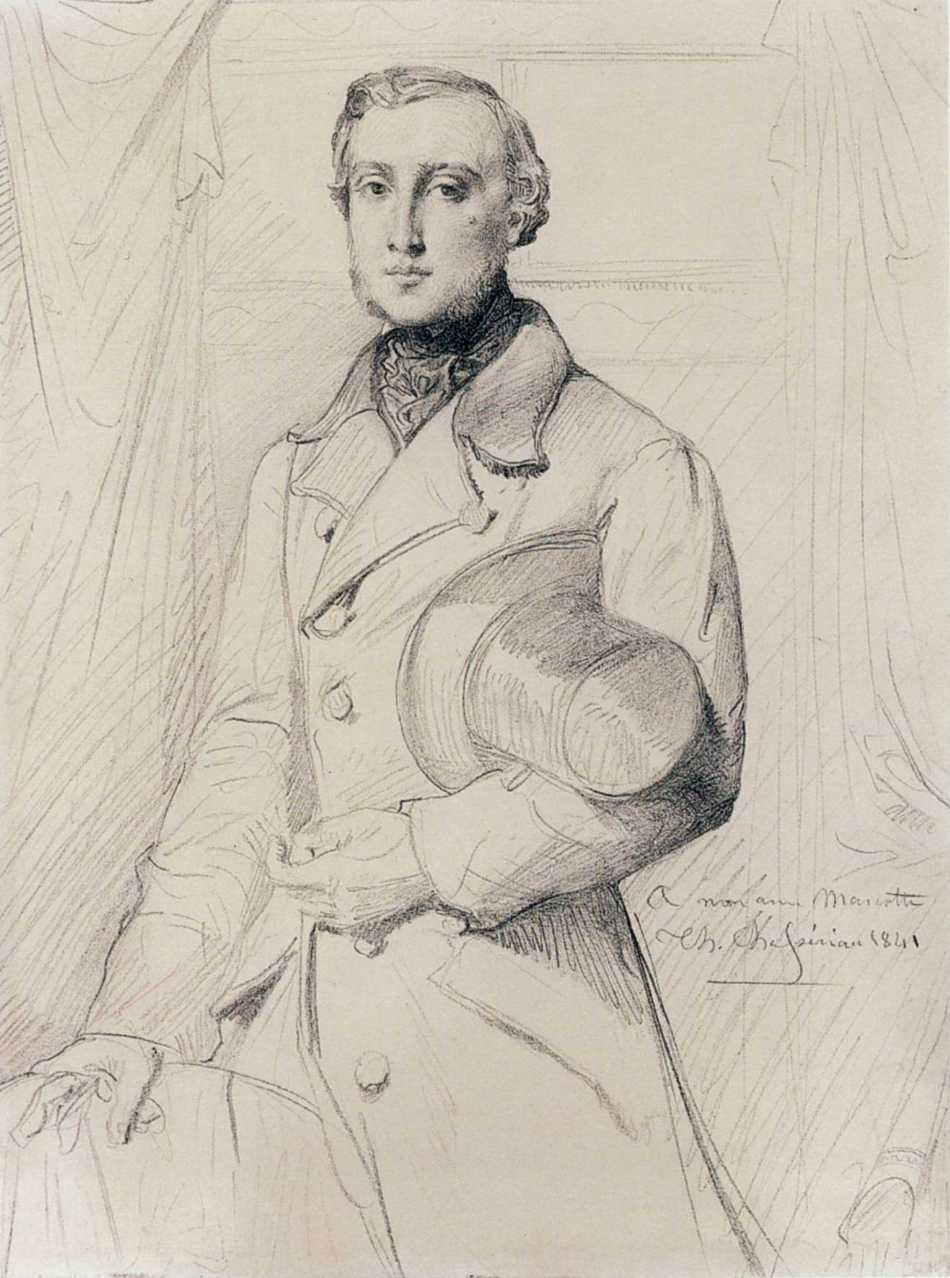 Théodore Chassériau (French, 1819-1856): Portrait of Louis Marcotte de Quivières (1815-1899); Dimensions and material of painting: Graphite, 33.5 x 25.5 cm